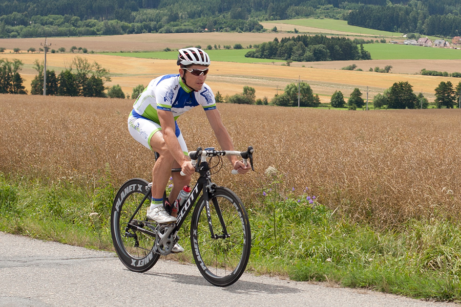 Rostislav Krotký, czech cyclist